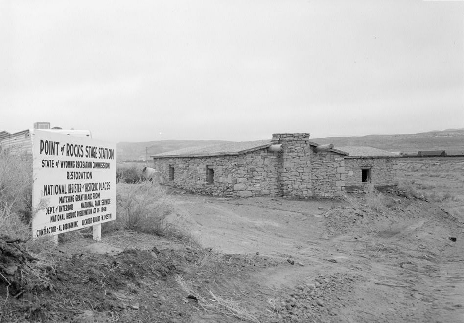 Front of the Point of Rocks Stage Station, located ½ mile south of Interstate 80 near Rock Springs, Wyoming. Built in 1862, the station is listed on the National Register of Historic Places. Image courtesy of Historic American Buildings Survey—HABS.